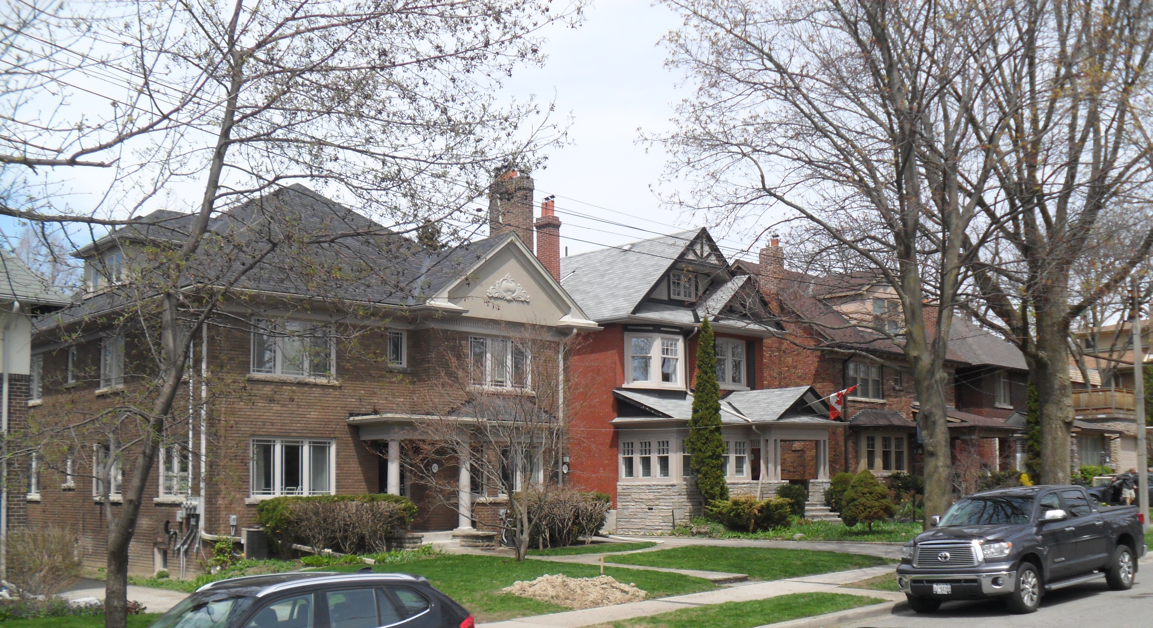 Typical homes in Moore Park, Toronto